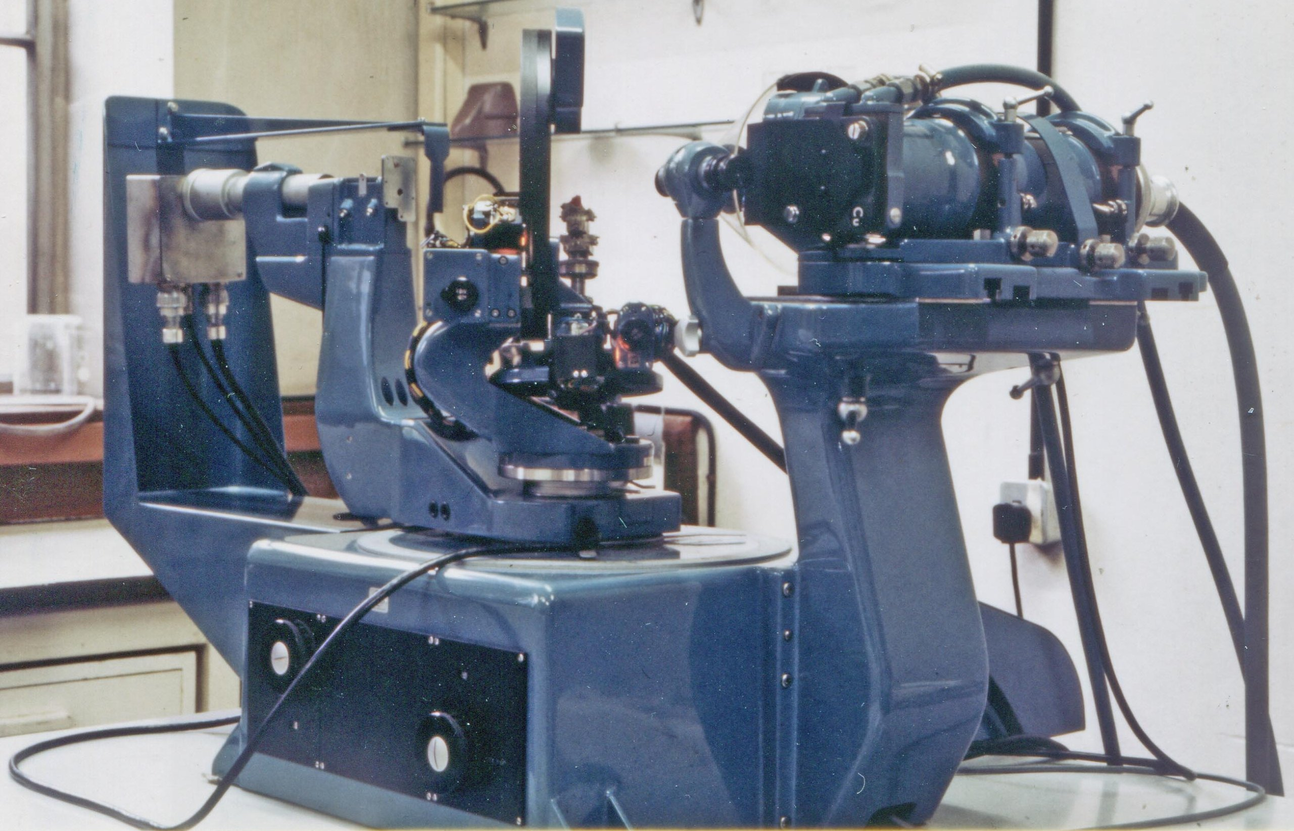 A Hilger and Watts Y290 four-circle X-ray diffractometer at the University of Oxford (photo: Prof. D. Watkin).